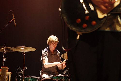 Matthew Wood of British Sea Power (website) at Le Café de la Danse - Paris XIème - February 10, 2008 Sur l'aimable invitation de Beggars France